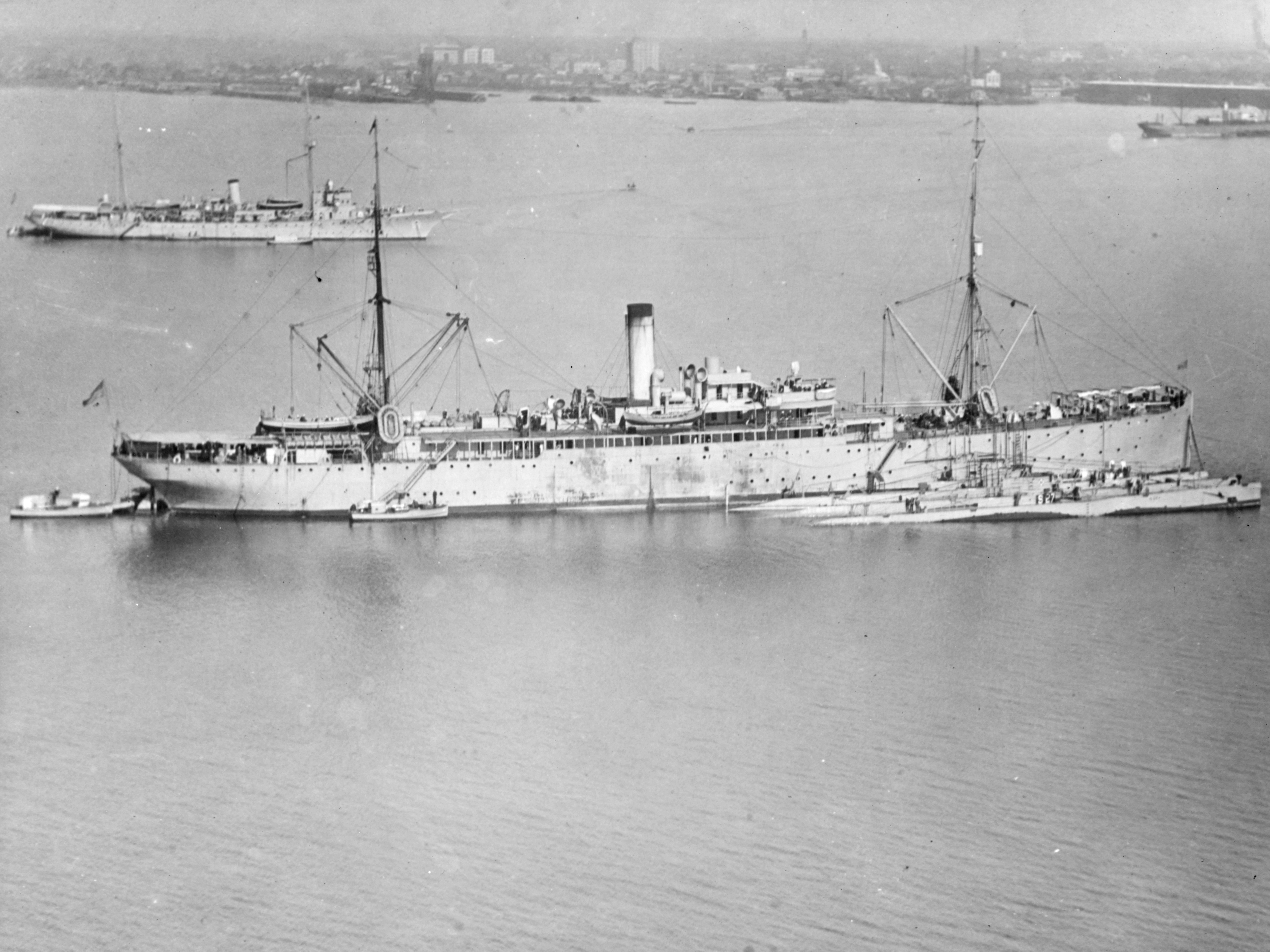 The U.S. Navy submarine tender USS Savannah (AS-8) with three S-class submarines alongside, in December 1924. The outboard submarine is S-27 (SS-132). Savannah tended Submarine Division Eleven, which consisted of S-24 through S-29. USS Bushnell (AS-2) is in the left background.